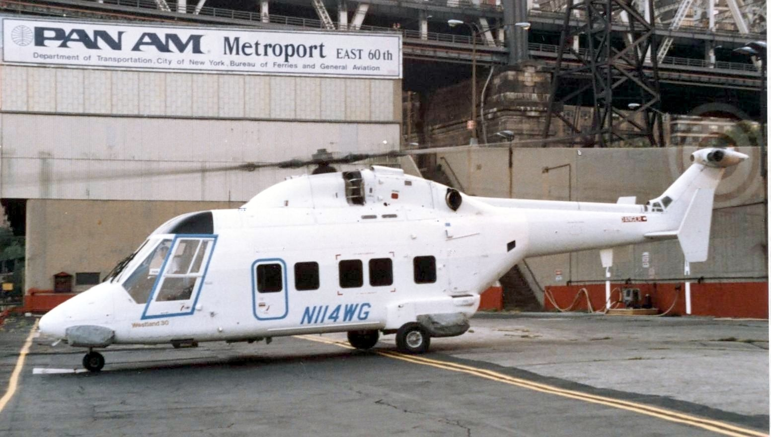 Westland 30 helicopter of Omniflight operating for Pan Am at New York's East 60th Street Heliport